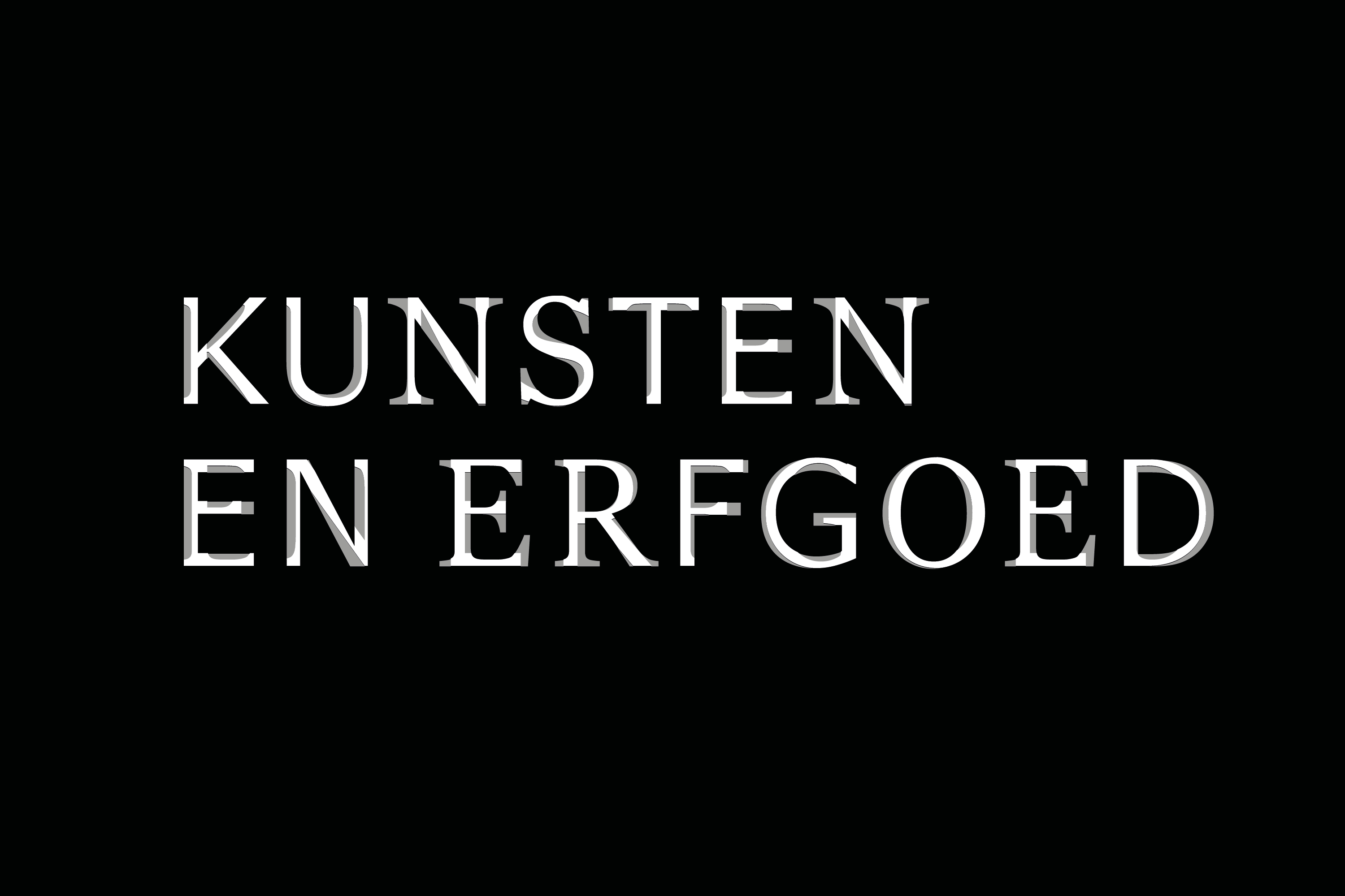 Logo and typeface design for ‘Kunsten en Erfgoed’ (2007)